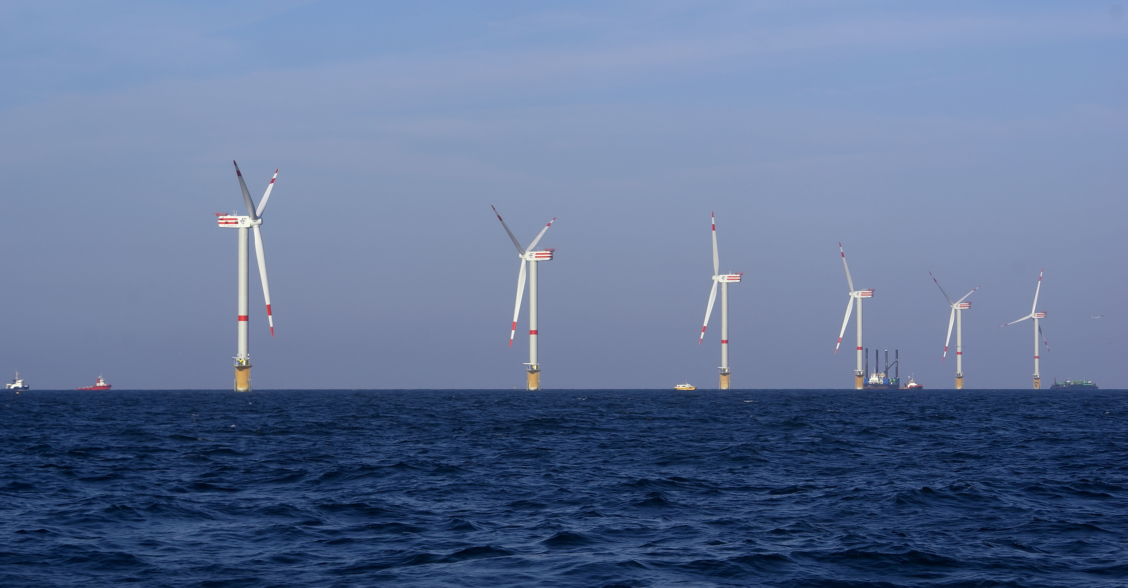 Final phase in the construction of windmills D6 to D1 (left to right) on the Thornton Bank, 28 km off shore, on the Belgian part of the North Sea. The windmills are 157m (+TAW) high, 184m above the sea bottom. Vane length : 61.5m Rotor diameter: 126m Rotor area: 12.469m² Turbines: 5MW manufactured by REpower Distance between windmills: 500m Panorama constructed from 6 landscape photographs.